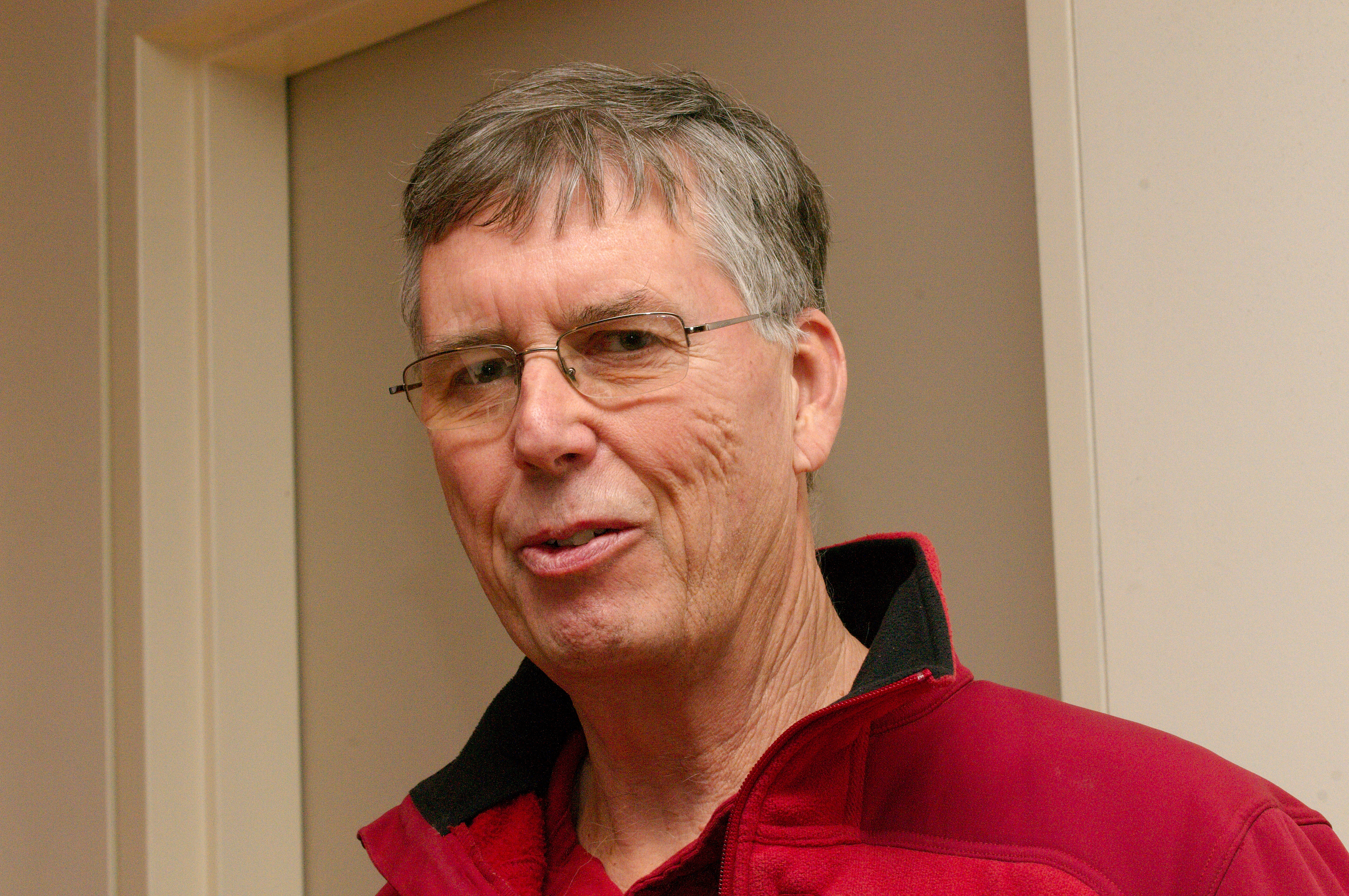 Computer science researcher Michael Stonebraker about to give a talk at the University of California, Berkeley (306 Soda Hall, HP Auditorium) on "Task-specific Search".